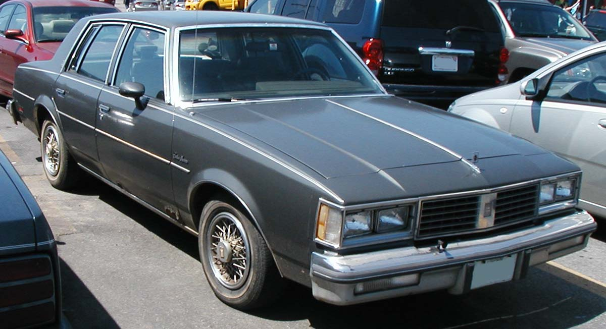 1981 Oldsmobile Cutlass Supreme photographed in USA.